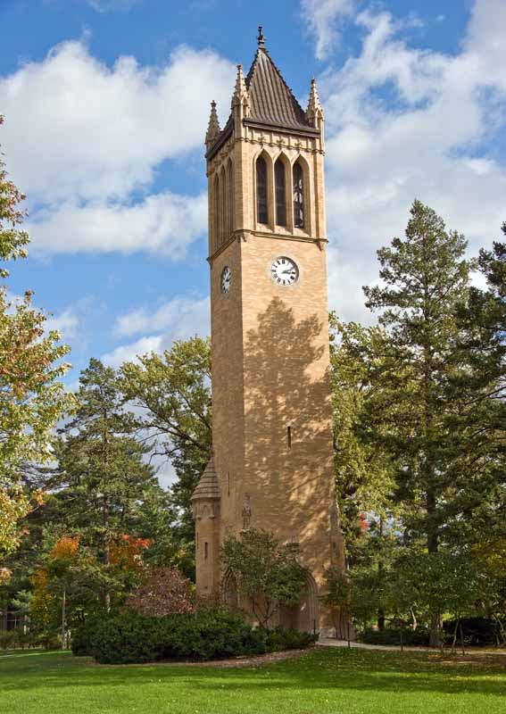 The Campanile, The Campanile, Iowa State University, Ames, Iowa Ames (Iowa)